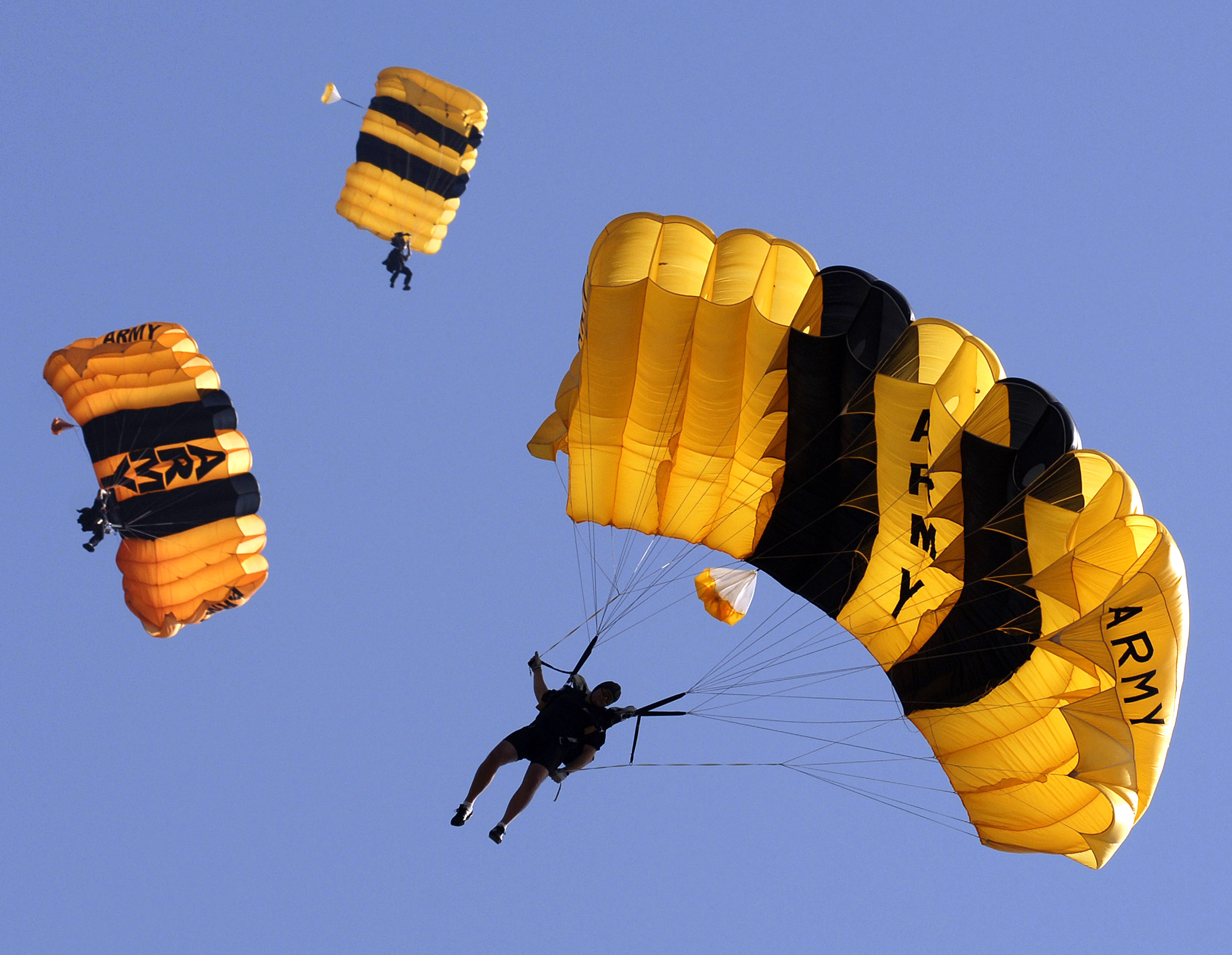 The U.S. Army Golden Knights Parachute Team competes in the accuracy competition at the 4th Conseil Internationale du Sport MilitaireÌs (CISM) Military World Games in Hyderabad, India, Oct. 14, 2007. The CISM Military World Games is the largest international military Olympic-style event in the world. (U.S. Air Force photo by Master Sgt. Glenda S. Lynchard)